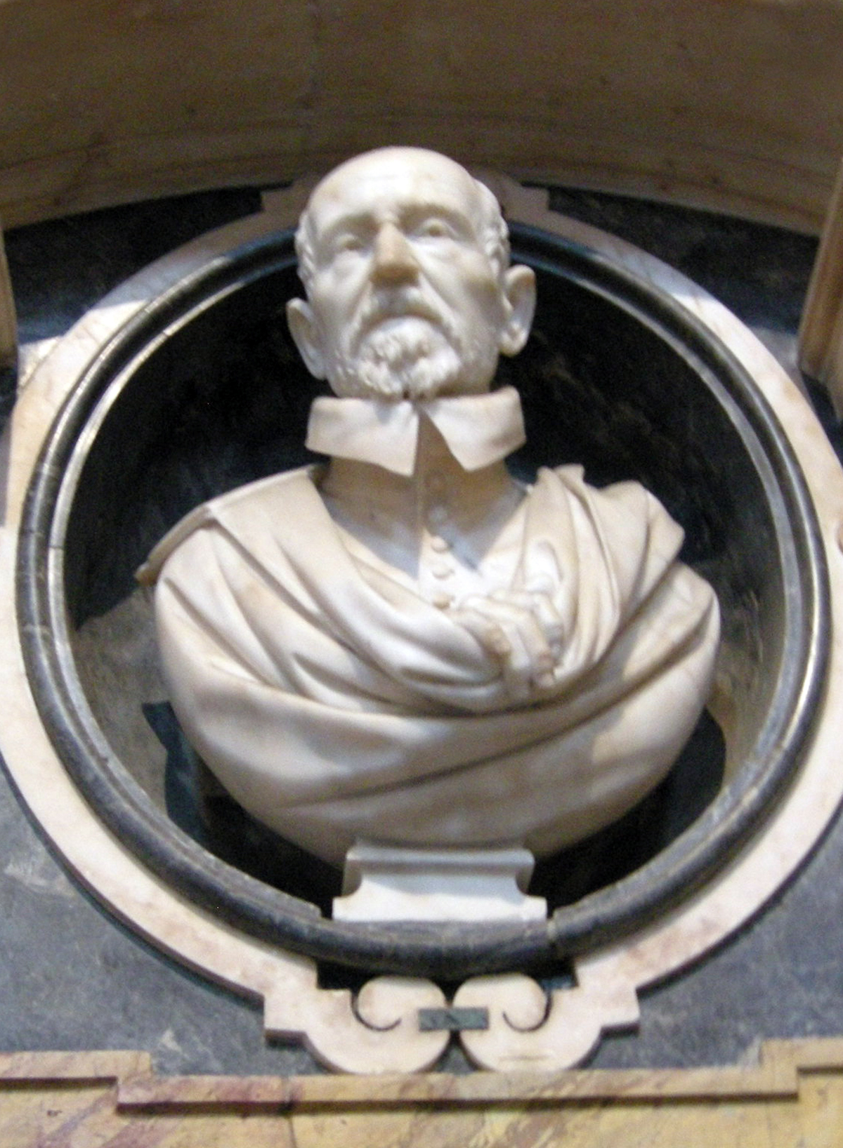 Bust of Giovanni Vigevano by Gianlorenzo Bernini, 1630